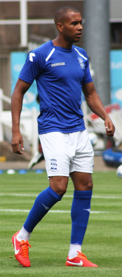 Matt Green vs Hull City in Birmingham City pre-season.